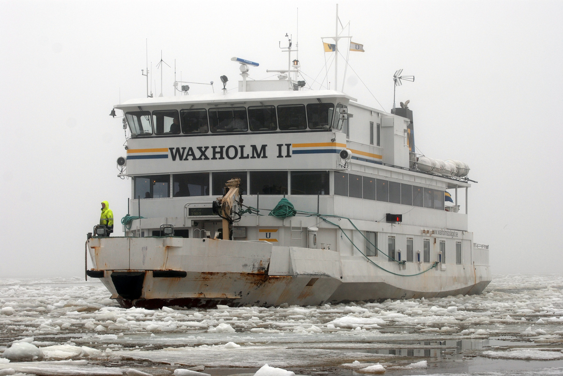 M/S Waxholm II